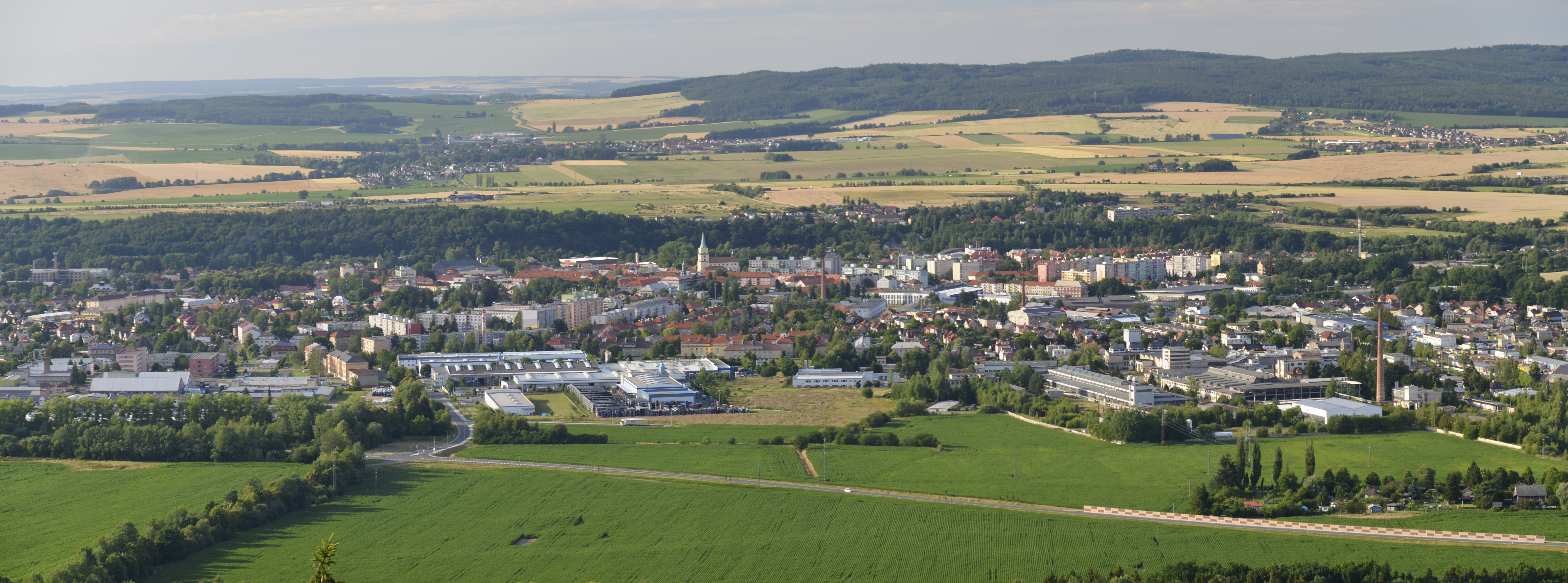 Rokycany, town in Pilsen Region, Czech Republic, view from the south from Kotel Hill (575 m)